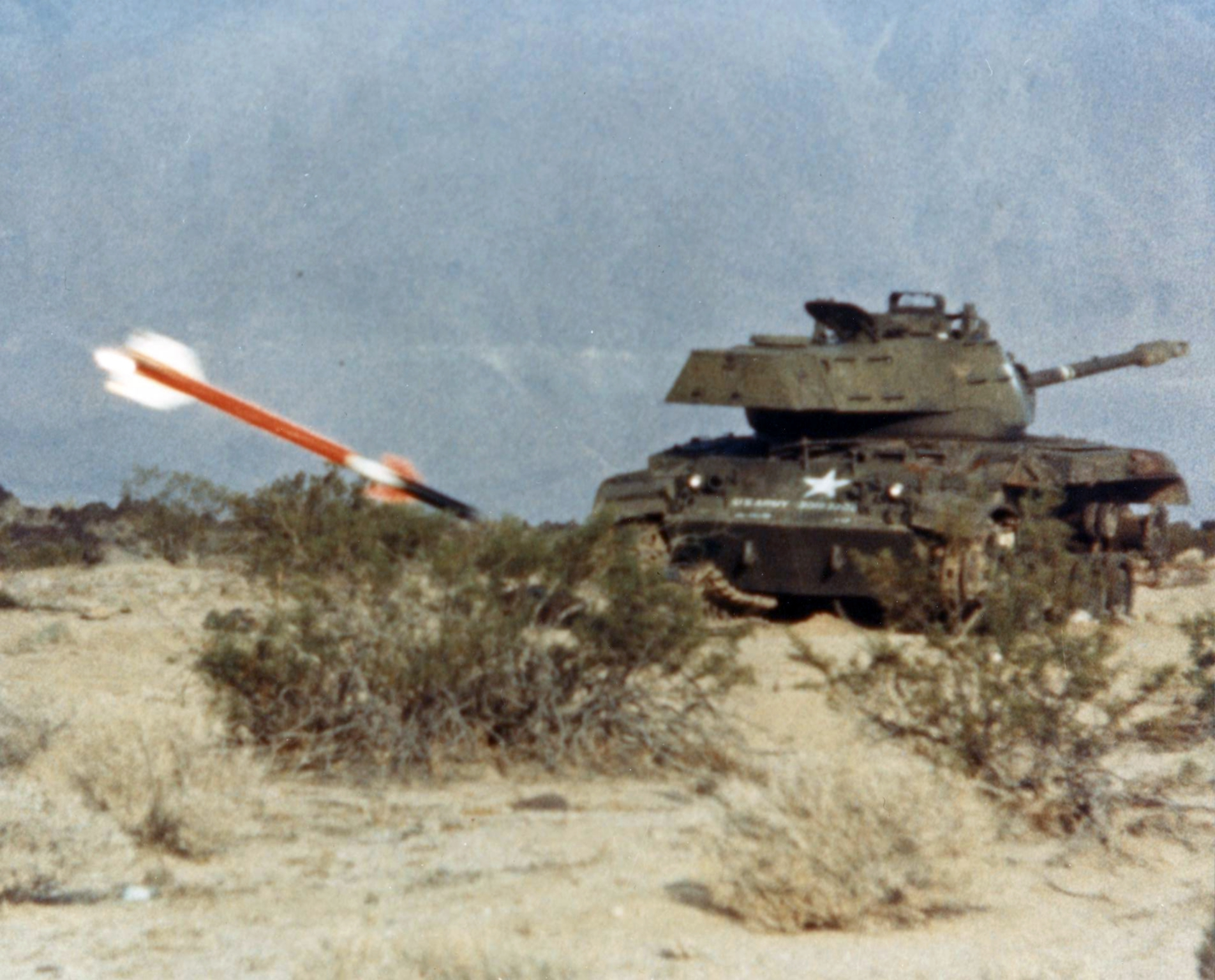 An an AIM-9L Sidewinder air-to-air missile fired from a U.S. Navy Bell HH-1K Huey just before it hits a ground target (M41 tank) at the U.S. Navy Naval Weapons Center (NWC) China Lake, California, 12 October 1971.